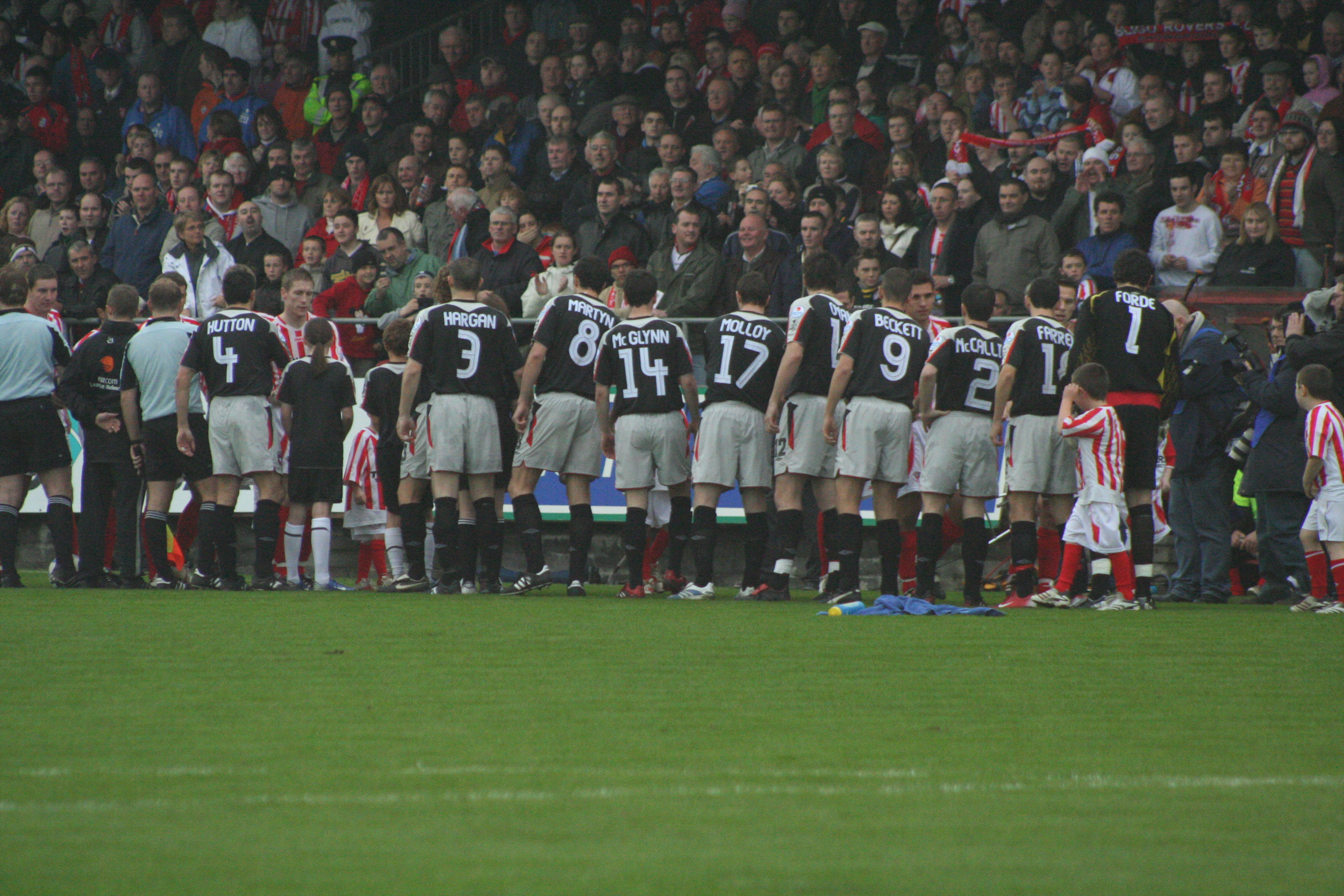 Derry City team prior to FAI Cup semi-final 2006. Personal photo.